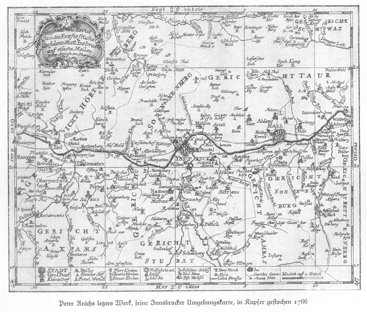 Scan from a historic book